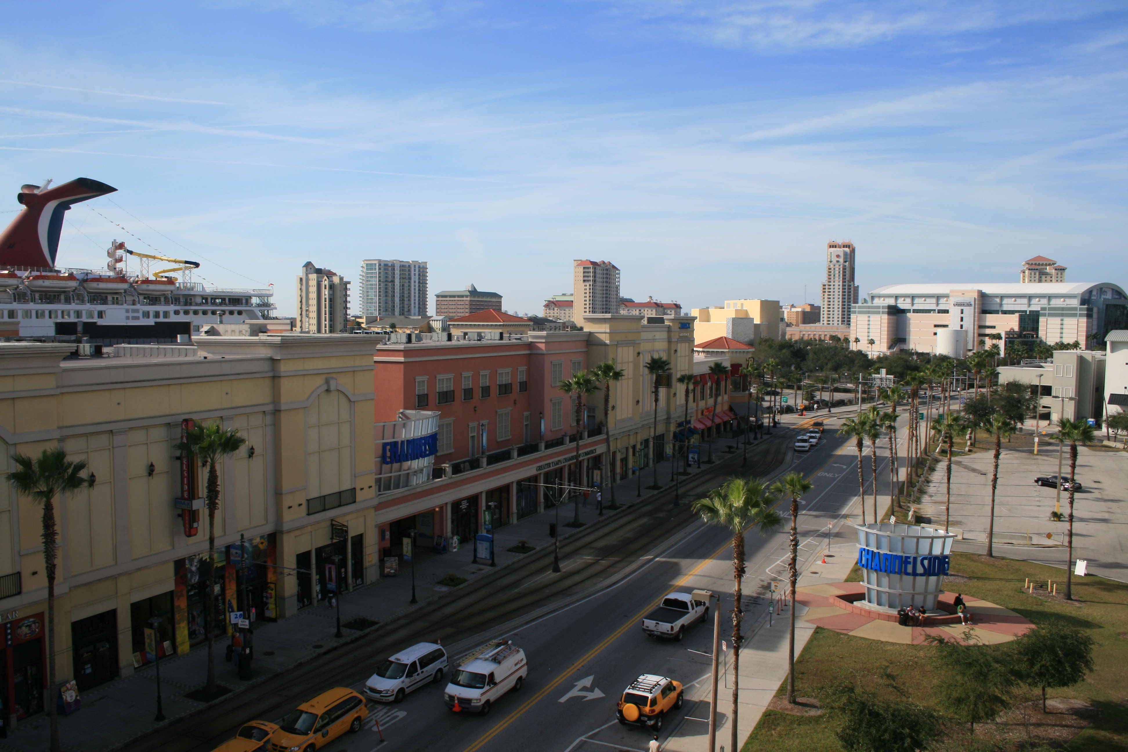 Tampa's Channelside.